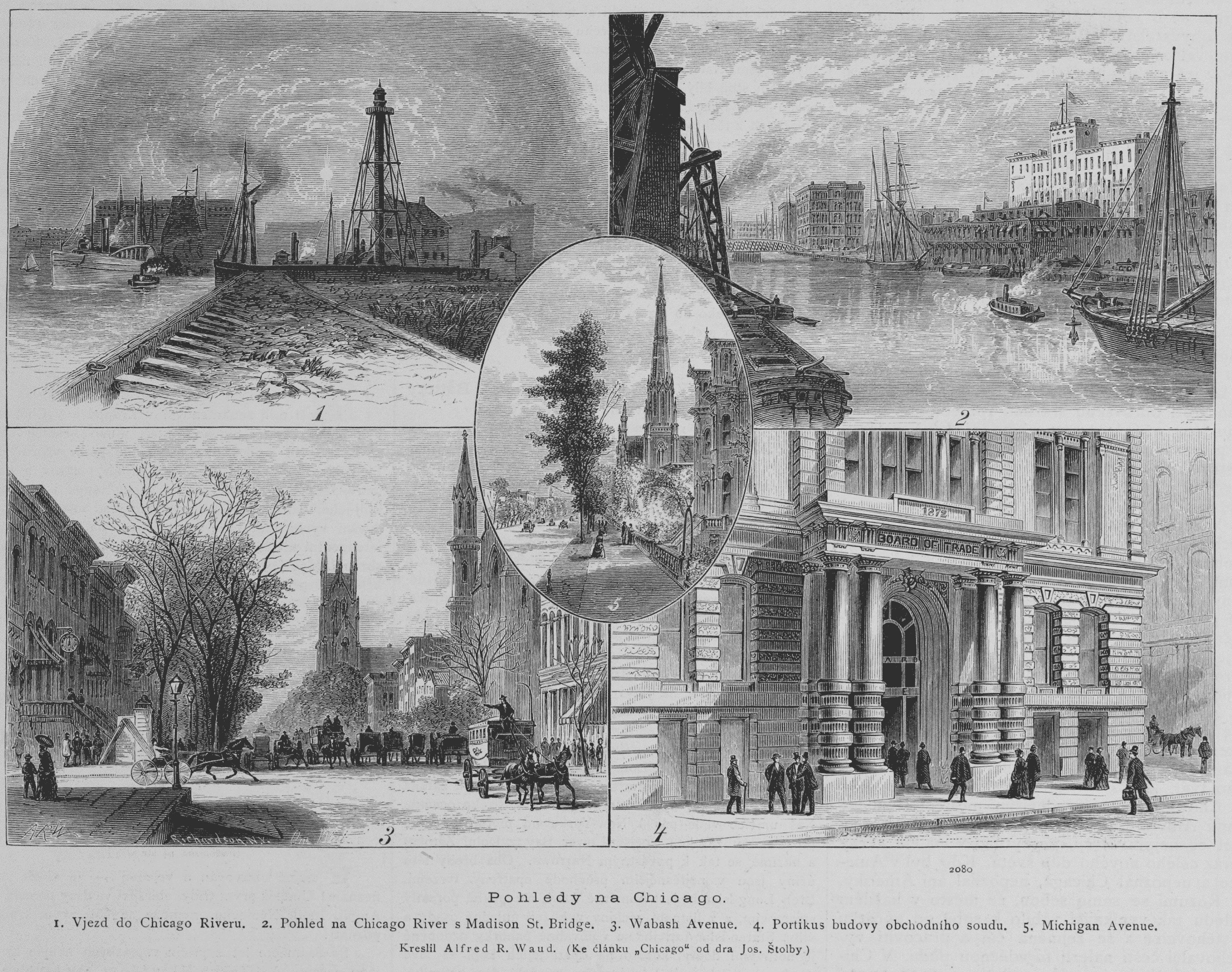 Views of Chicago, an illustration to a Czech-language article Chicago by Josef Štolba (1846 - 1930) in Zlatá Praha magazine. Featuring: 1. Entry to Chicago River, 2. View of Chicago River from Madison Street Bridge, 3. Wabash Avenue, 4. Portal of Board of Trade, 5. Michigan Avenue.